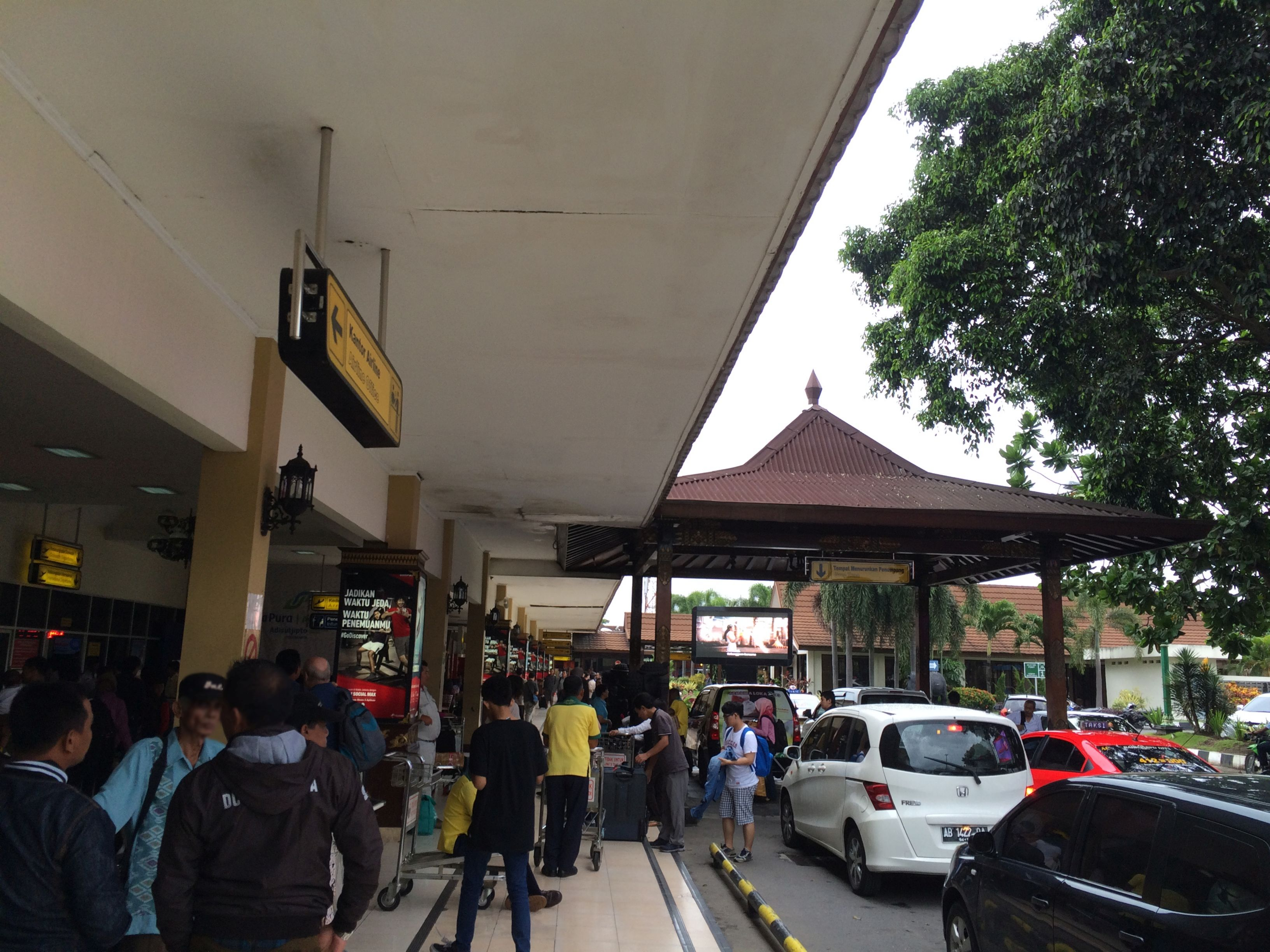 The entrance of Adisucipto International Airport in Yogyakarta on February 2015